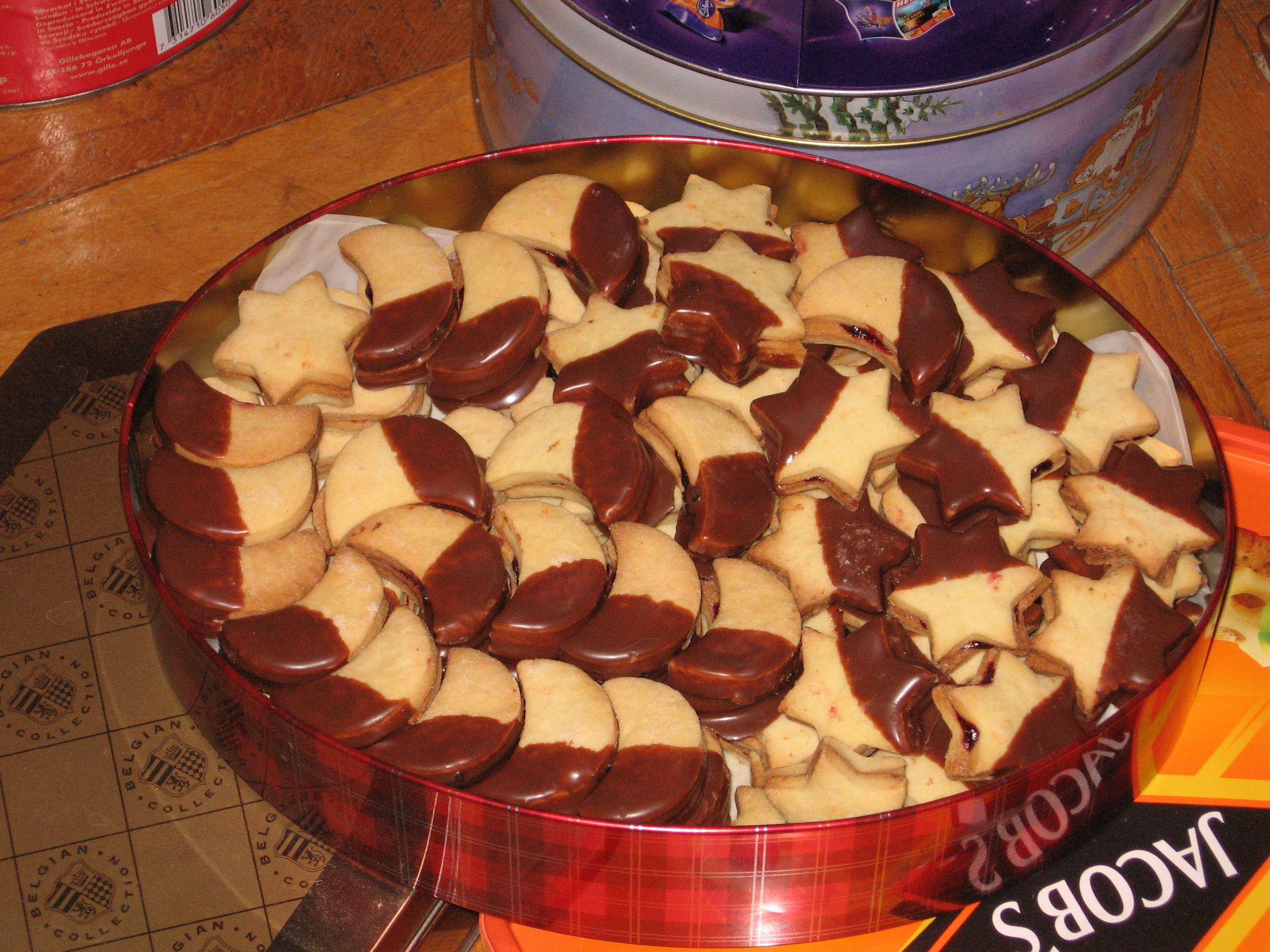 Christmas cookies made by the UK multinational United Biscuits.